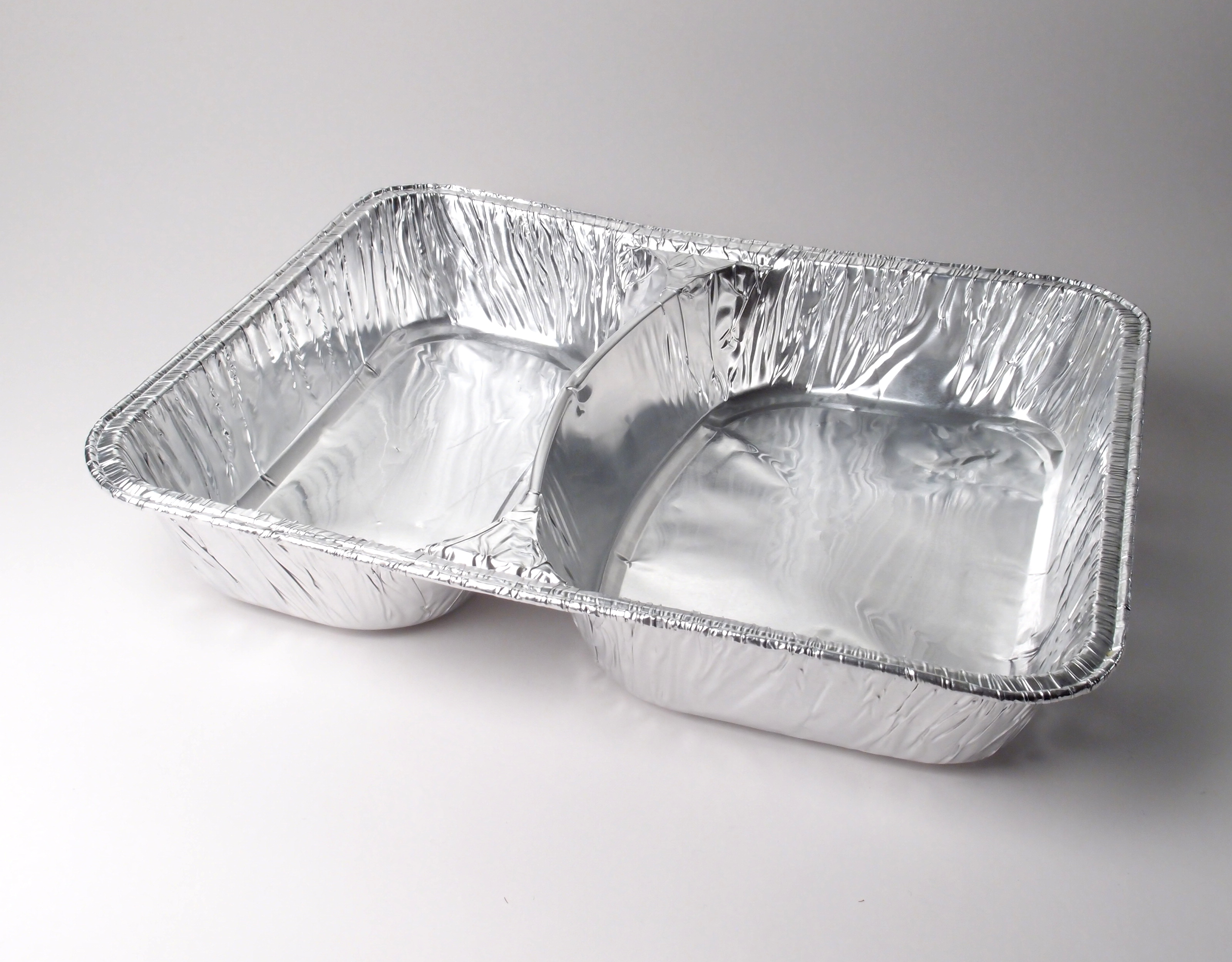 Take-out food tray made from aluminium, size 227×117 mm.